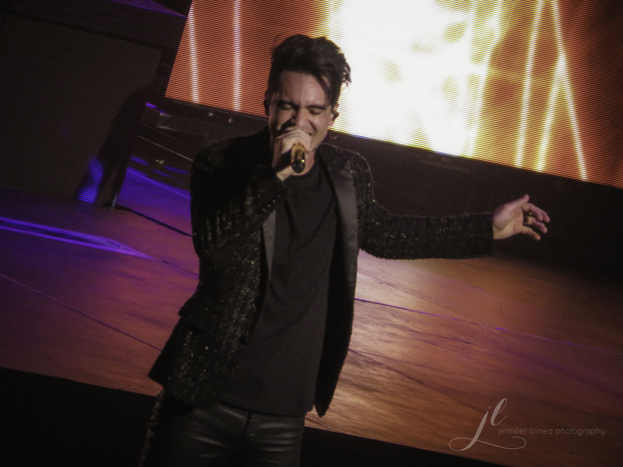 Brendon Urie on stage during Panic! At the Disco's Pray for the Wicked Tour stop in Denver, CO at the Pepsi Center on August 7, 2018.